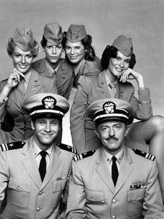 Publicity photo of the cast of the television program Operation Petticoat. Back, from left: Dorrie Thomson, Jamie Lee Curtis, Melinda Naud, Bond Gideon. Front, from left: Richard Gilliland, John Astin.